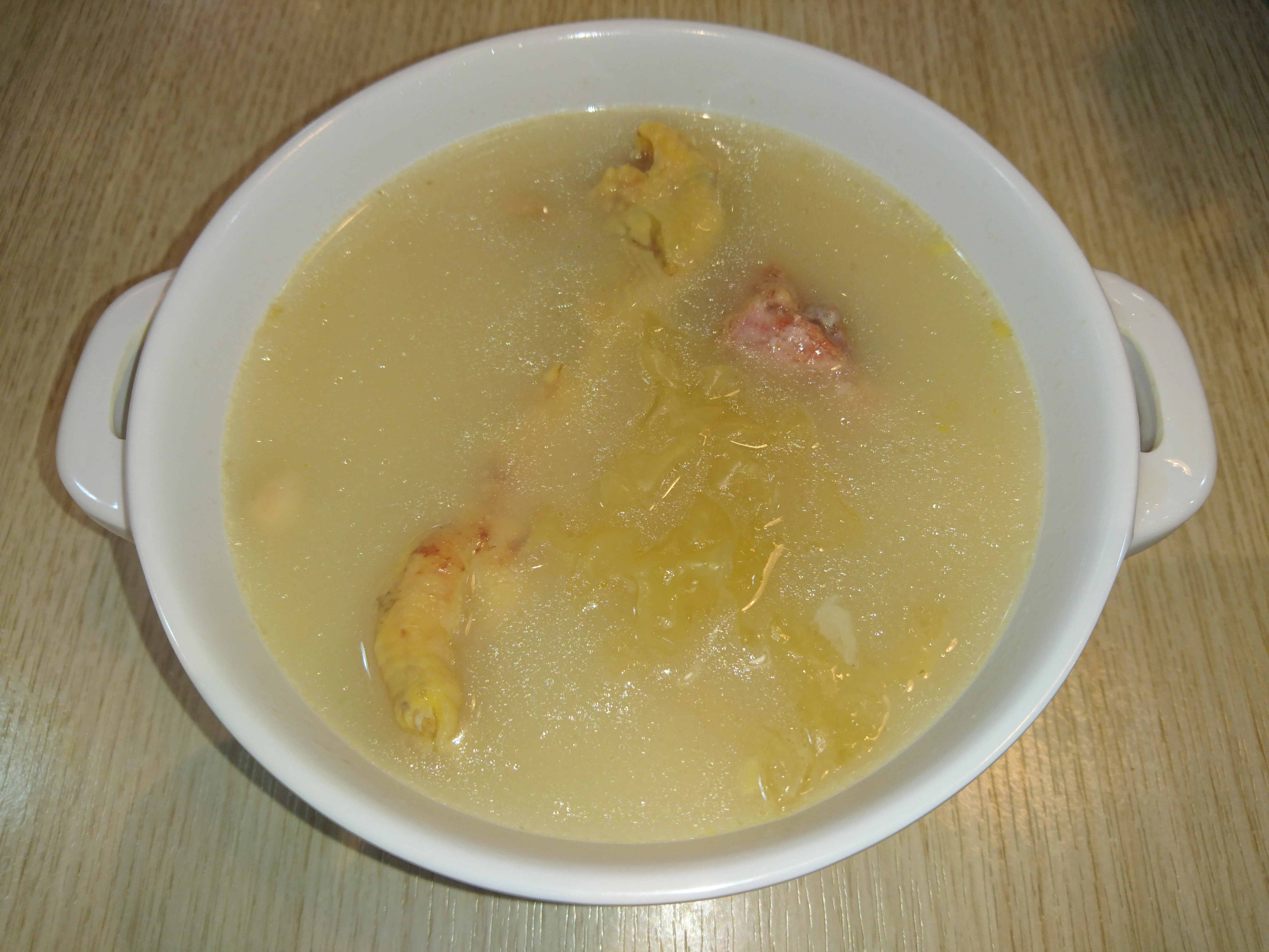 Chicken Soup in Chinese Style